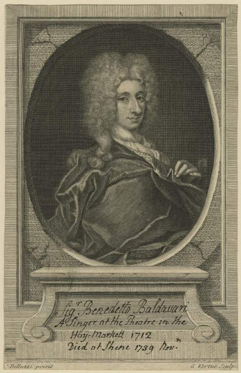 Benedetto Baldassari, castrato opera singer